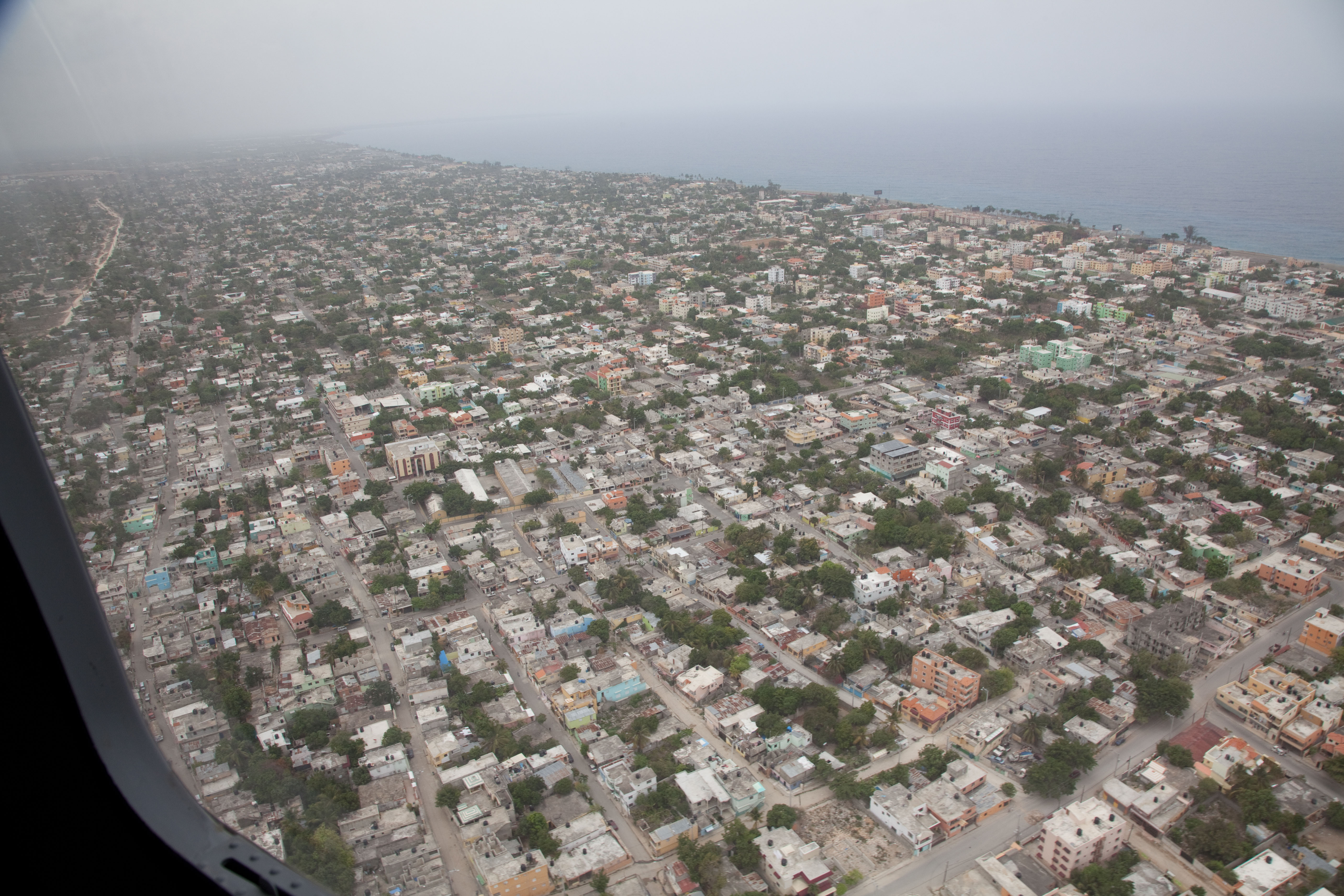 A U.S. Army Black Hawk UH-60 Helicopter flies over Barahona, Dominican Republic, on June 17, 2014 as a part of Beyond the Horizon. The Humanitarian Civic Assistance Beyond the Horizon, Task force Larimar is a joint military exercise in which U.S. Military and partnering nations provide medical, dental, and engineering support to the Dominican Republic.